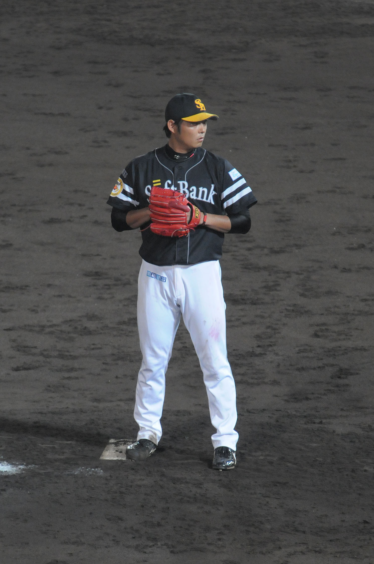 Tadashi Settsu, pitcher of the Fukuoka SoftBank Hawks, at Akita Prefectural Baseball Stadium.